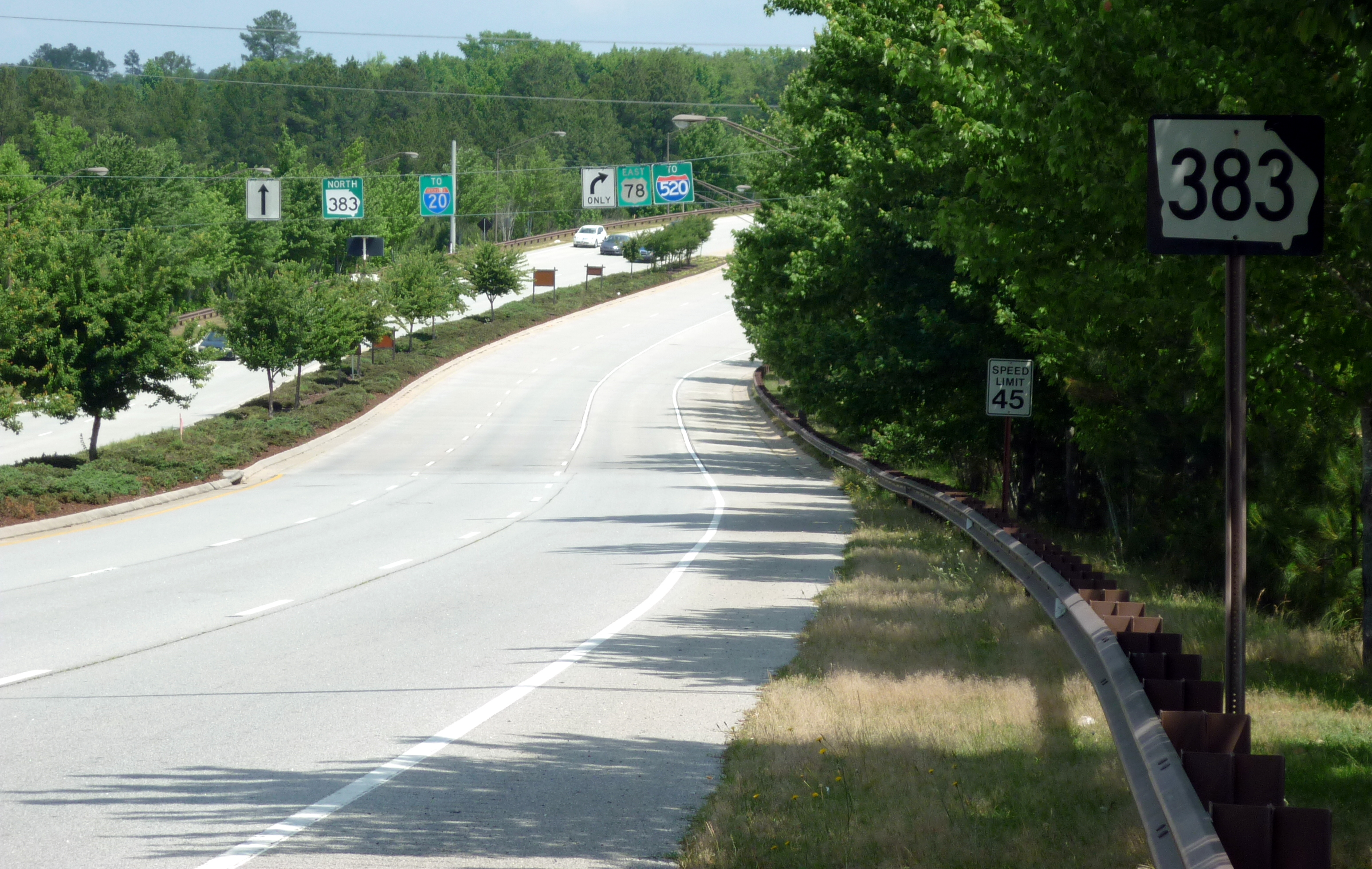 This is a sign for SR 383, leaving Fort Gordon, Georgia.